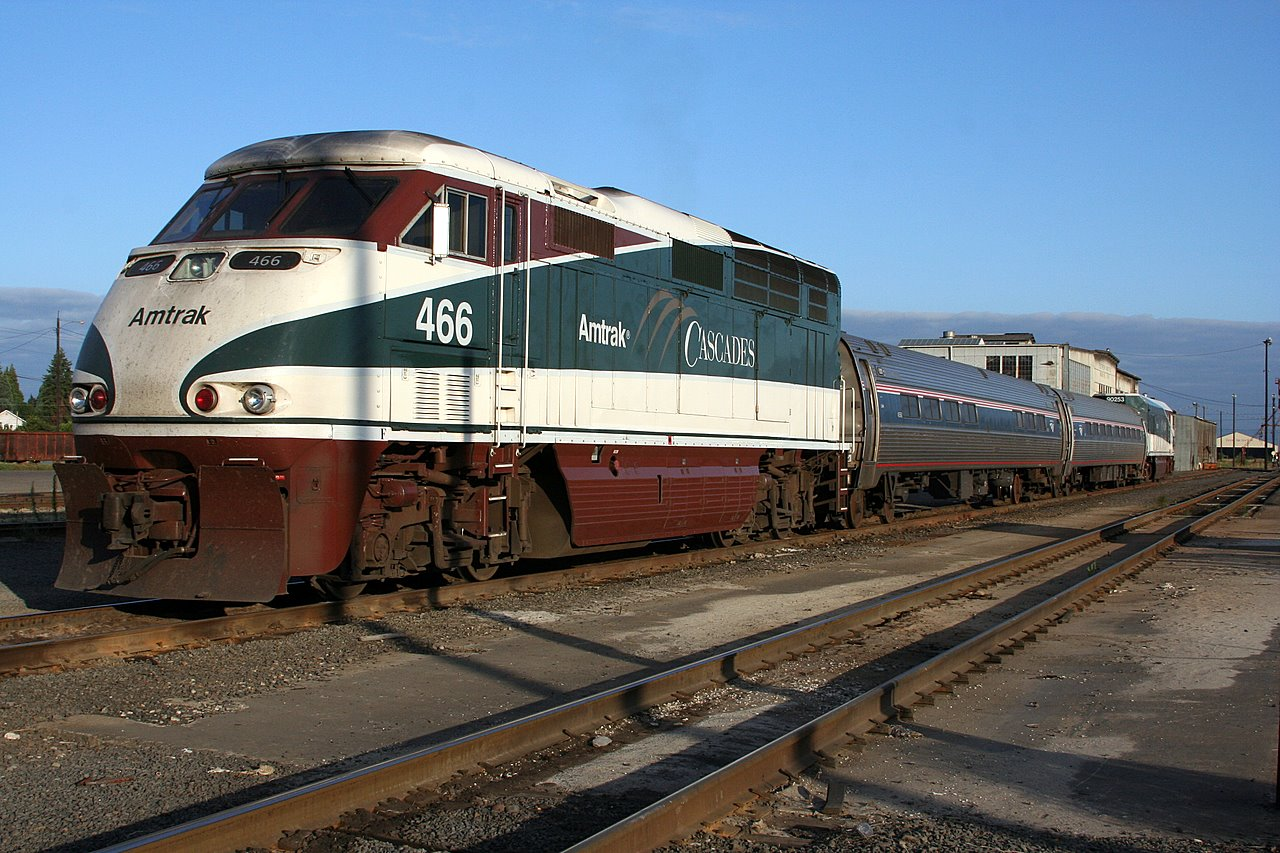 When the Talgo equipment was removed for emergency repairs, Amtrak substituted this Amfleet set in its place.